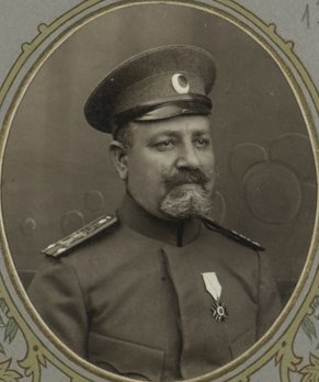 Yordan Georgiev. Album of the First World War on the 20th Invantry Regiment, Bulgaria. It was given by the commander of the regiment Ivan Kirpikov to Prince Cyril Preslavski, the head of the regiment.